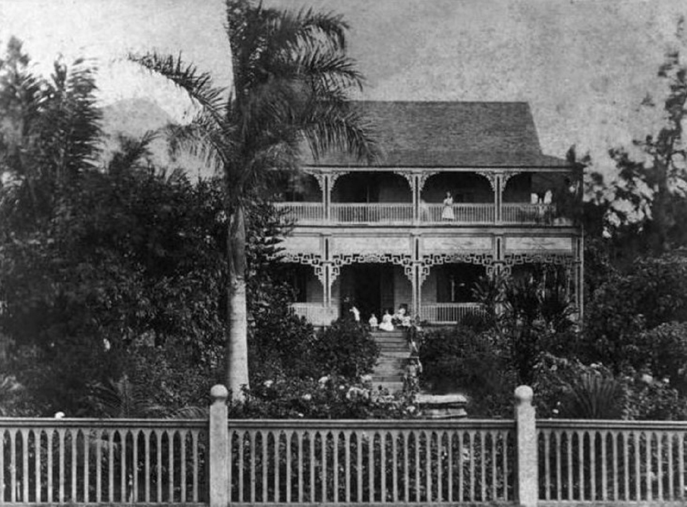 Chun Afong's house in Honolulu built in the Western and Chinese styles in the 1850s and torn down in 1902.